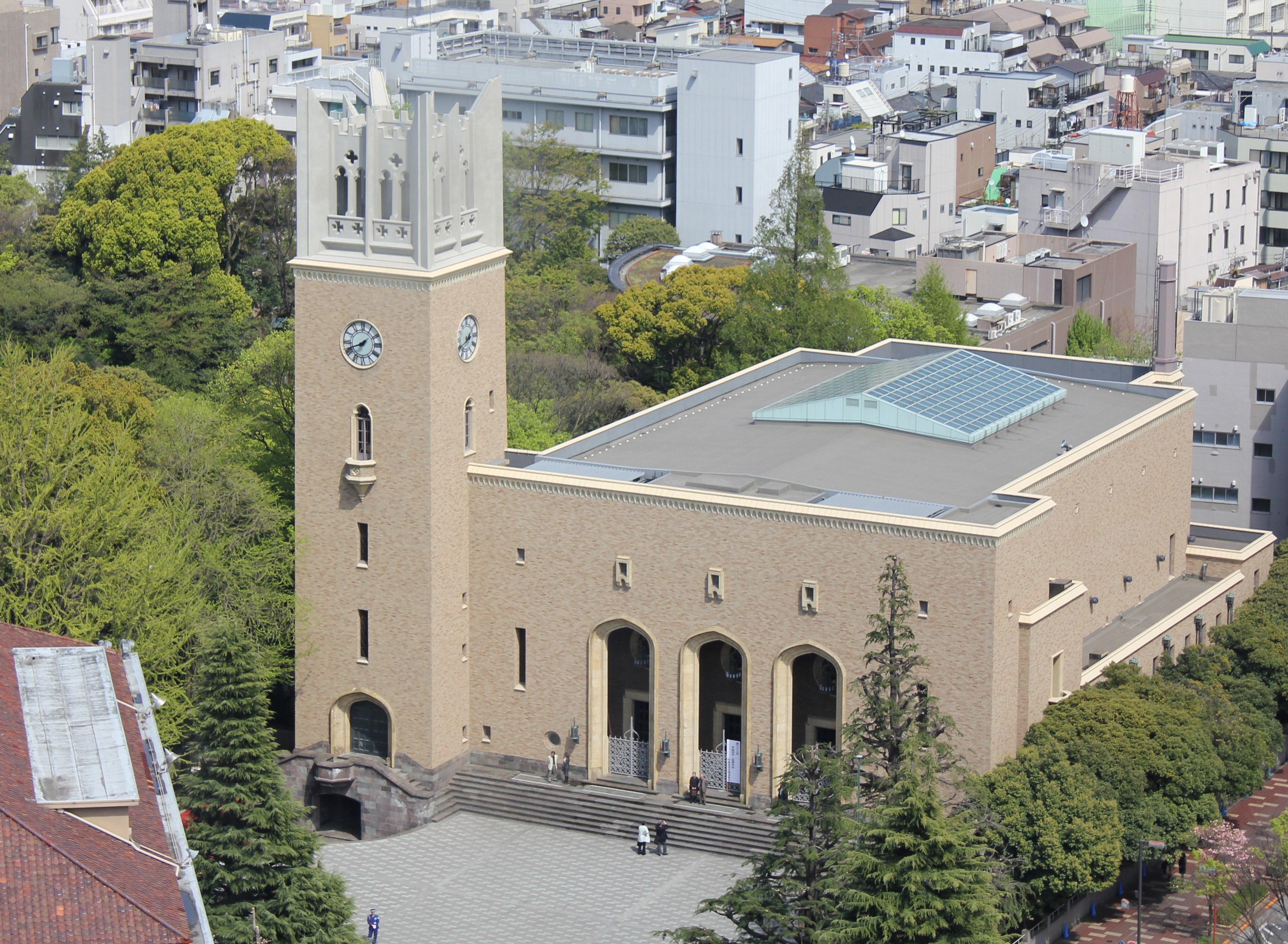 Okuma auditorium of Waseda University, as seen from the building N°11